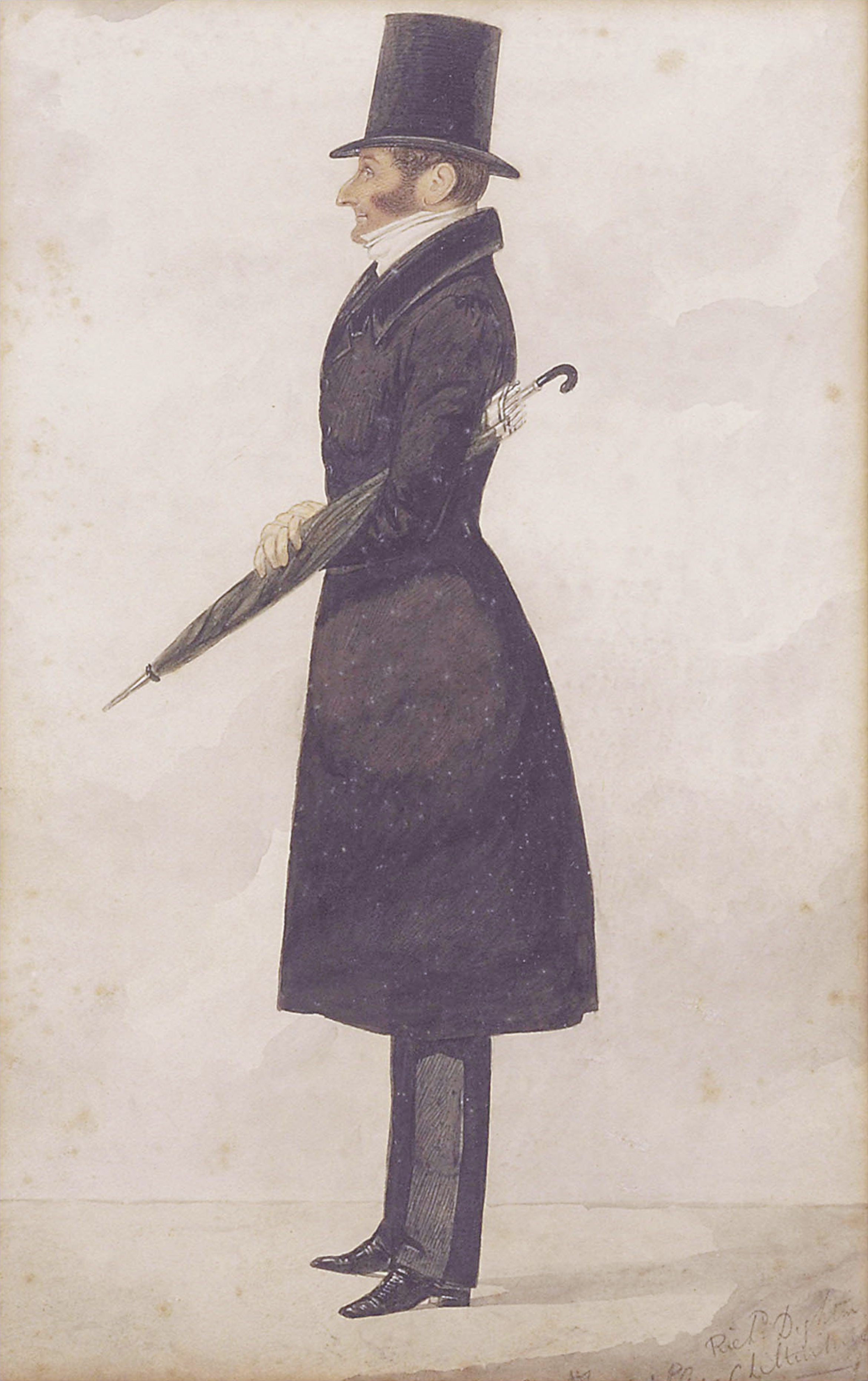 Henry Lygon, 5th Earl Beauchamp (1829-66) pencil and watercolour 36.2 x 23.5 cm signed l.r.: Richd Dighton